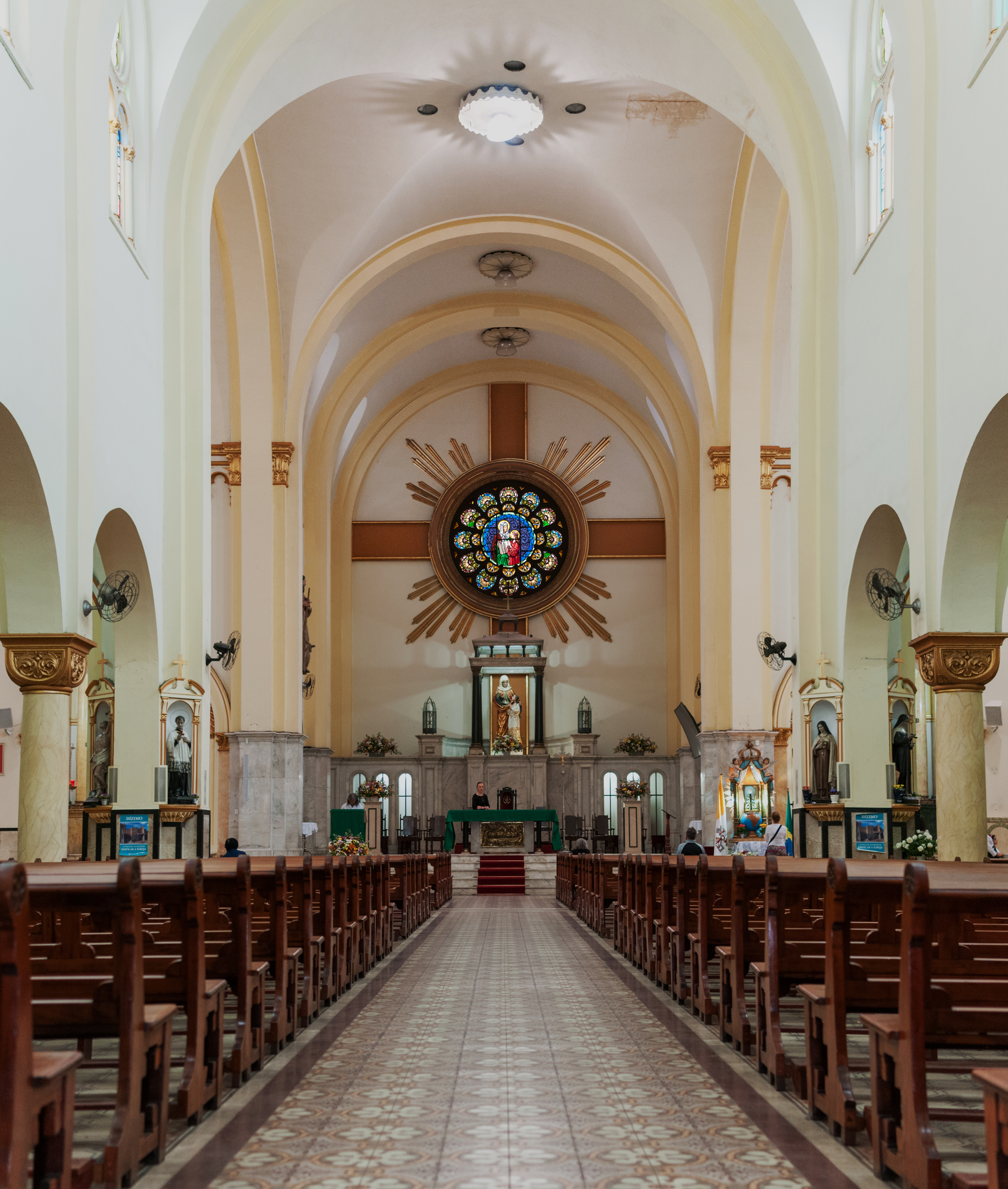 Santana Church Interior, São Paulo, Brazil. R. Voluntários da Pátria, 2060 - Santana, São Paulo - SP, 02011-400